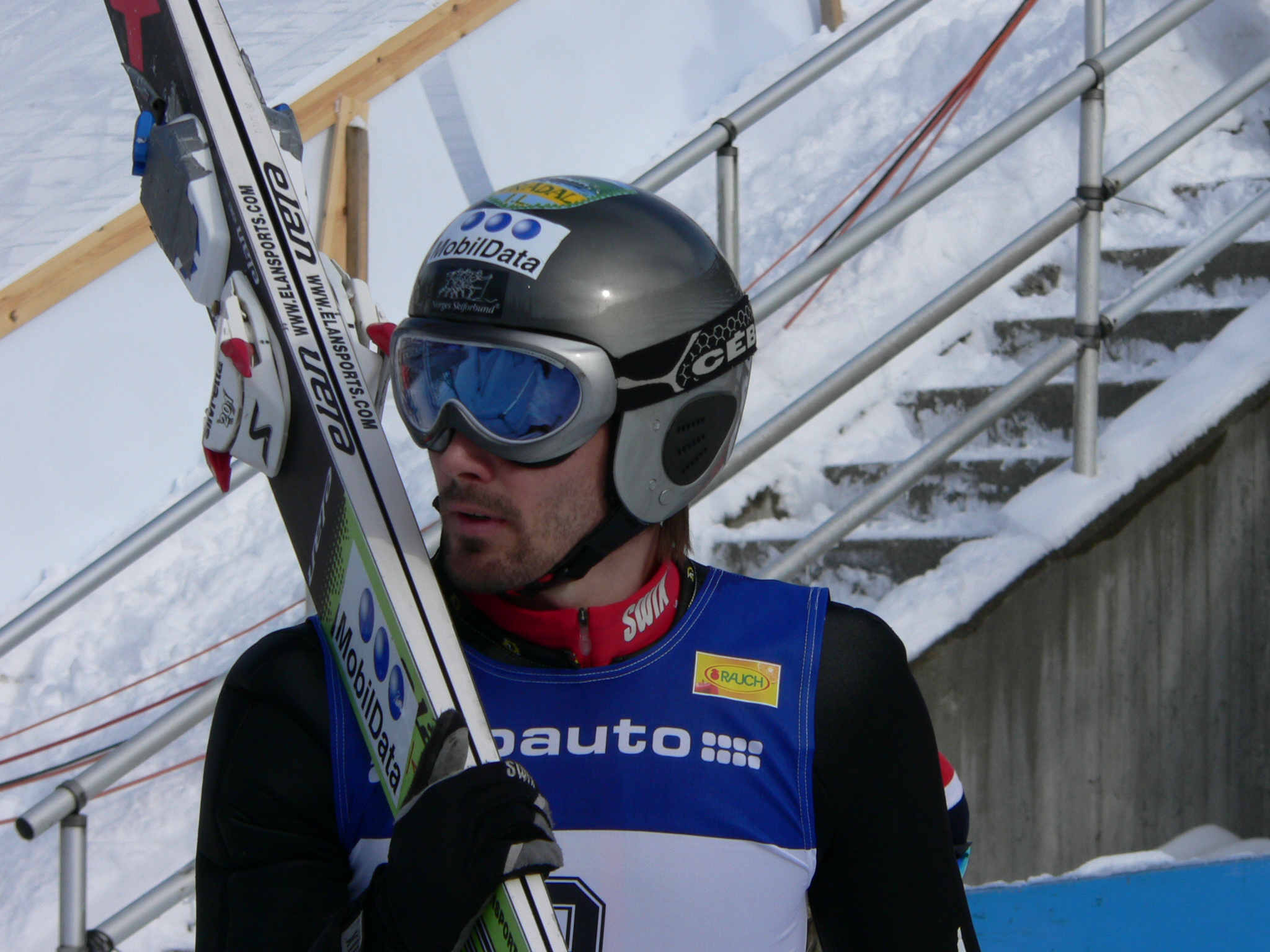 From the nordic combined event in Holmenkollen on 12.3.2005.